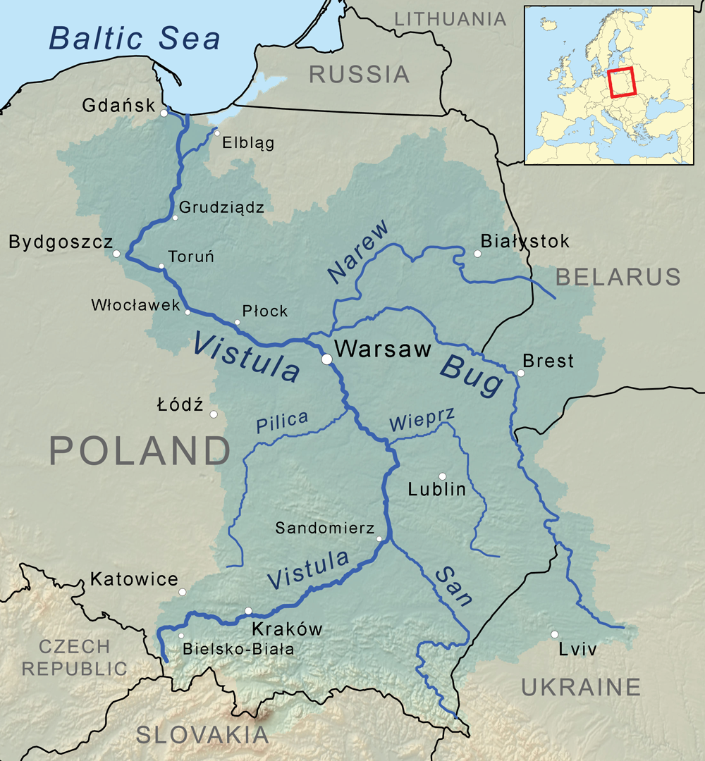 Map showing the Vistula river basin.